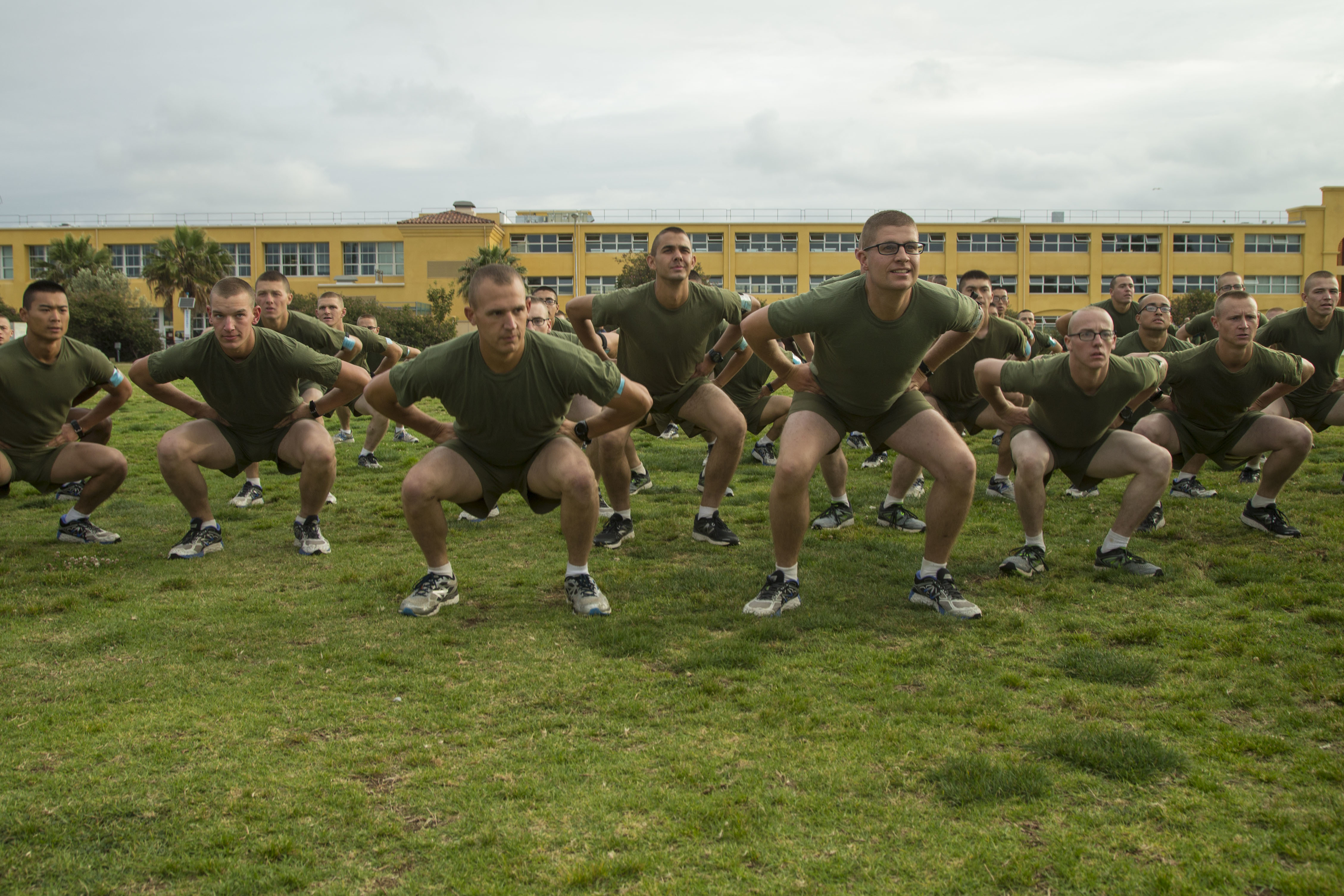 Recruits with Mike Company, 3rd Recruit Training Battalion, conduct warm up exercises prior to a physical training session at Marine Corps Recruit Depot San Diego, May 16. Recruits conduct physical training on a weekly basis to stay conditioned for the various events they encounter throughout training. Annually, more than 17,000 males recruited from the Western Recruiting Region are trained at MCRD San Diego. Mike Company is scheduled to graduate May 24.